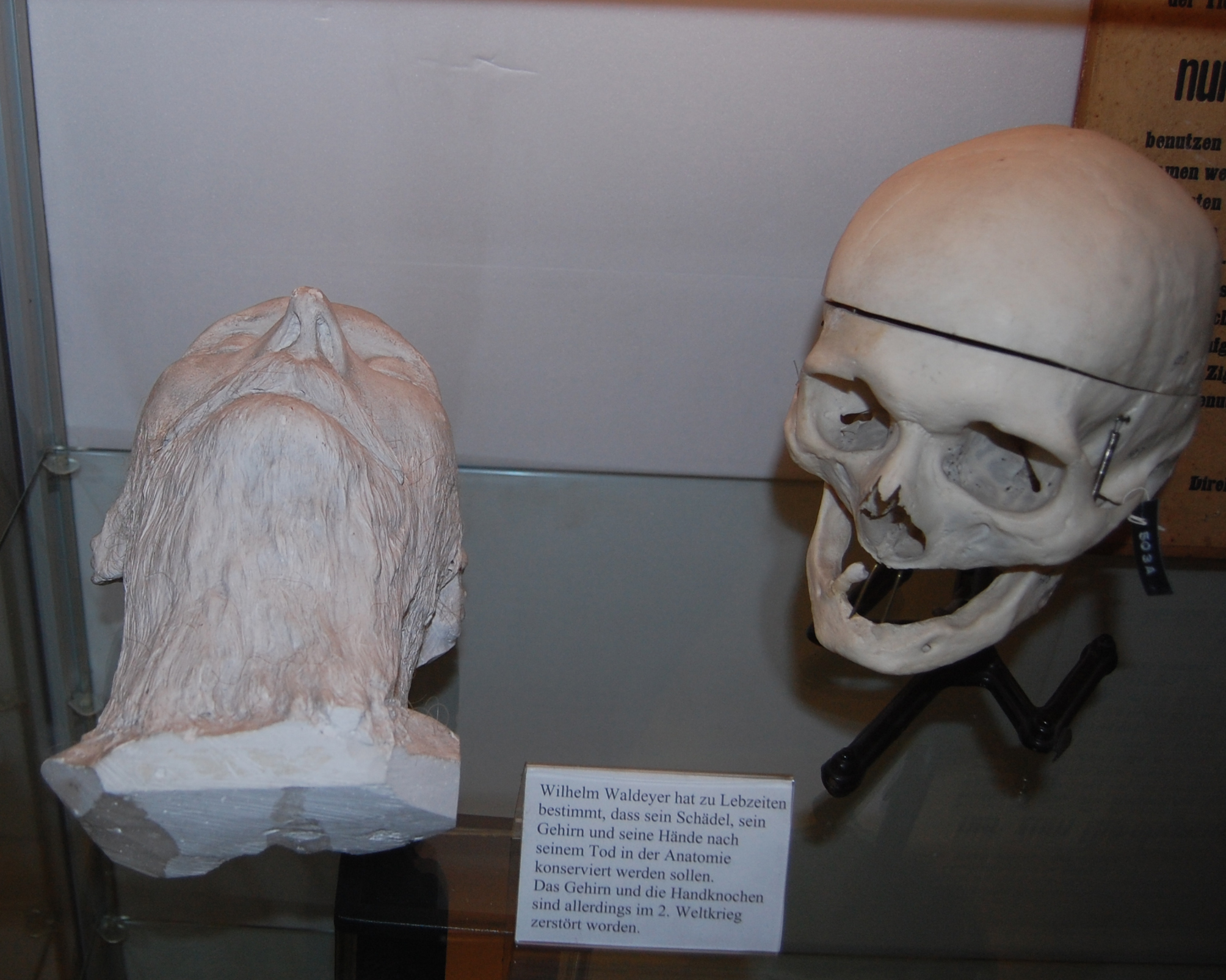 Mask of Wilhelm von Waldeyer-Hartz (1836-1921). On displaye (in 2008) in the hall of the Institute of Anatomy in Berlin. Charité Universitätsmedizin Berlin.